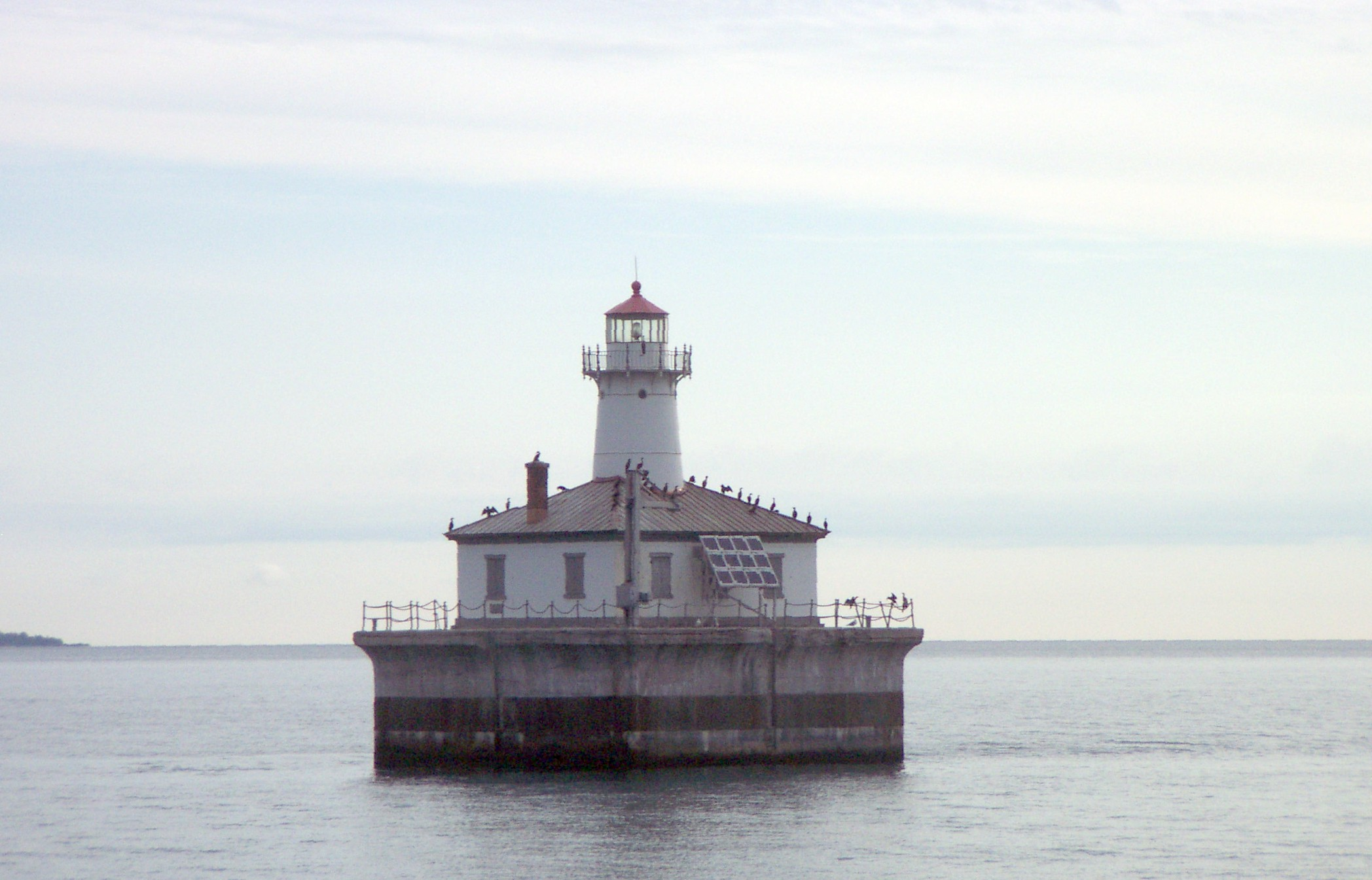 Lake Huron's historic Fourteen Foot Shoal Light near Cheboygan, Michigan, United States, is listed on the US National Register of Historic Places.